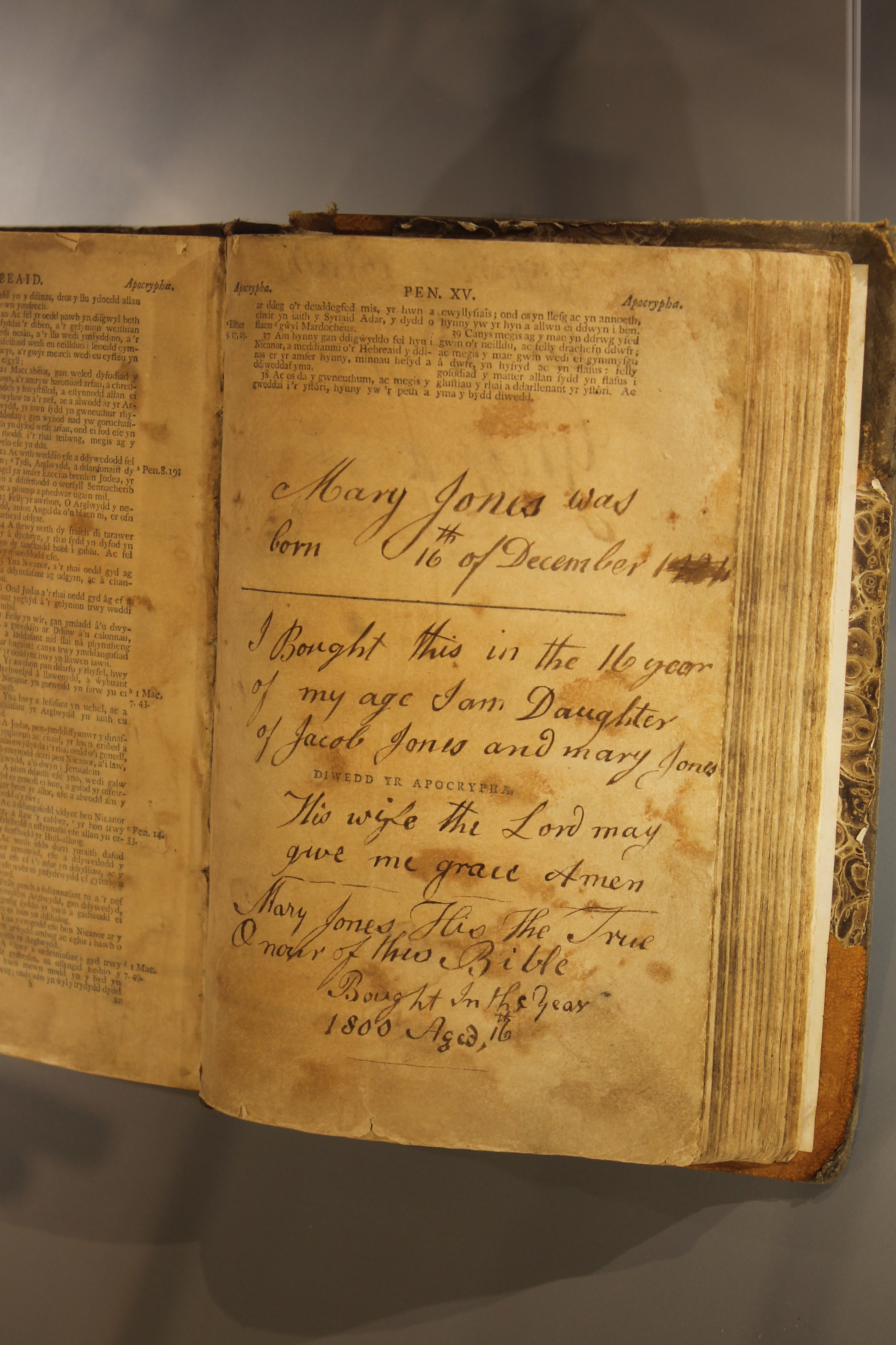 Facsimile of a bible belonging to Mary Jones of Llanfihangel-y-pennant. In 1800 she walked 26 miles to Bala to buy a bible from Thomas Charles. The original bible is in Cambridge University Library, this facsimile is in St Beuno's Church, Llanycil, Bala, Gwynedd, North Wales.